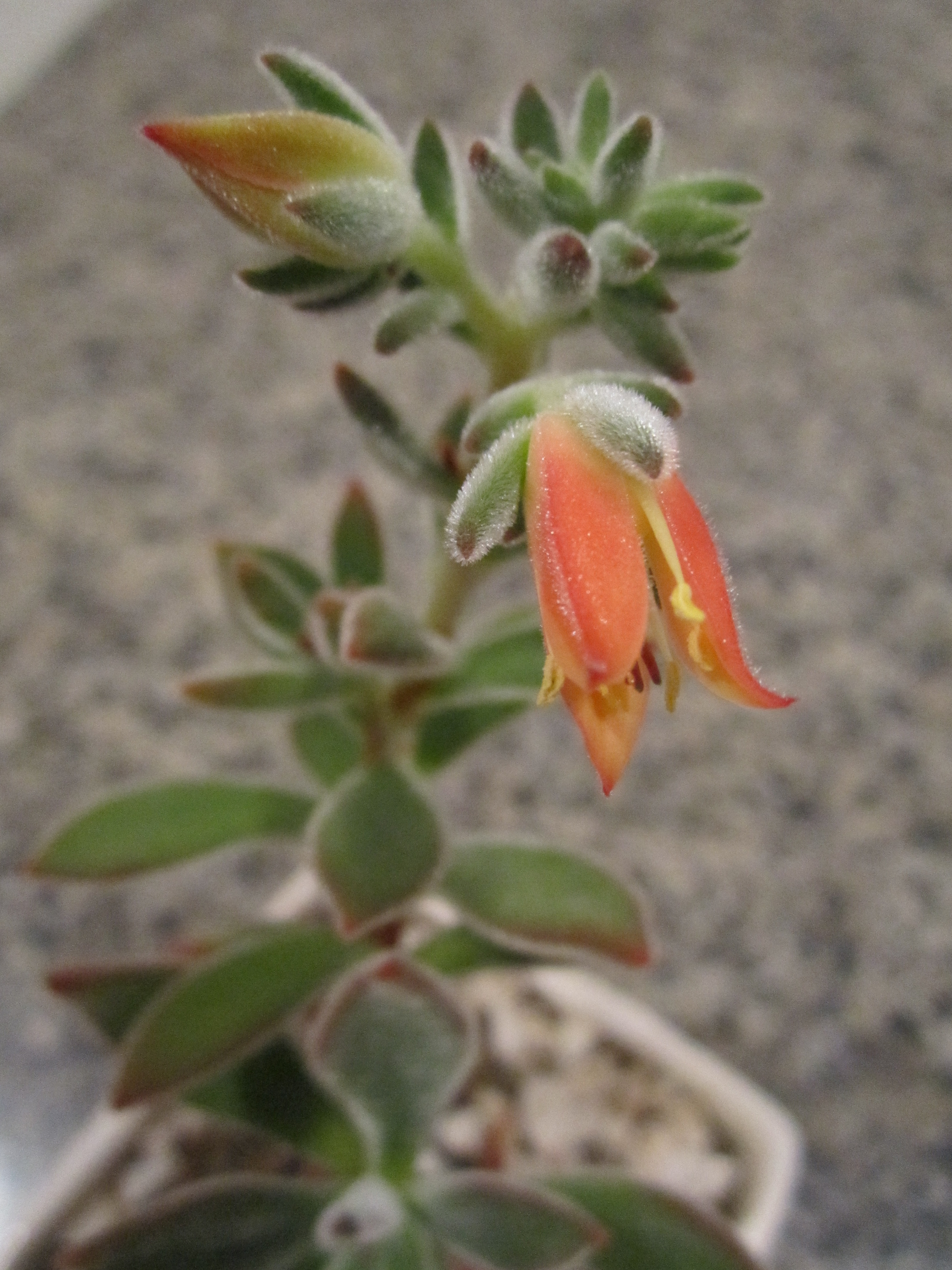 Blooming Echeveria Pulvinata